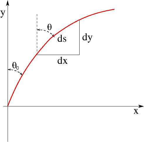 Refraction of light in variable atmosphere